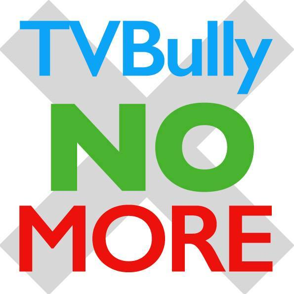 Internet Concern Group